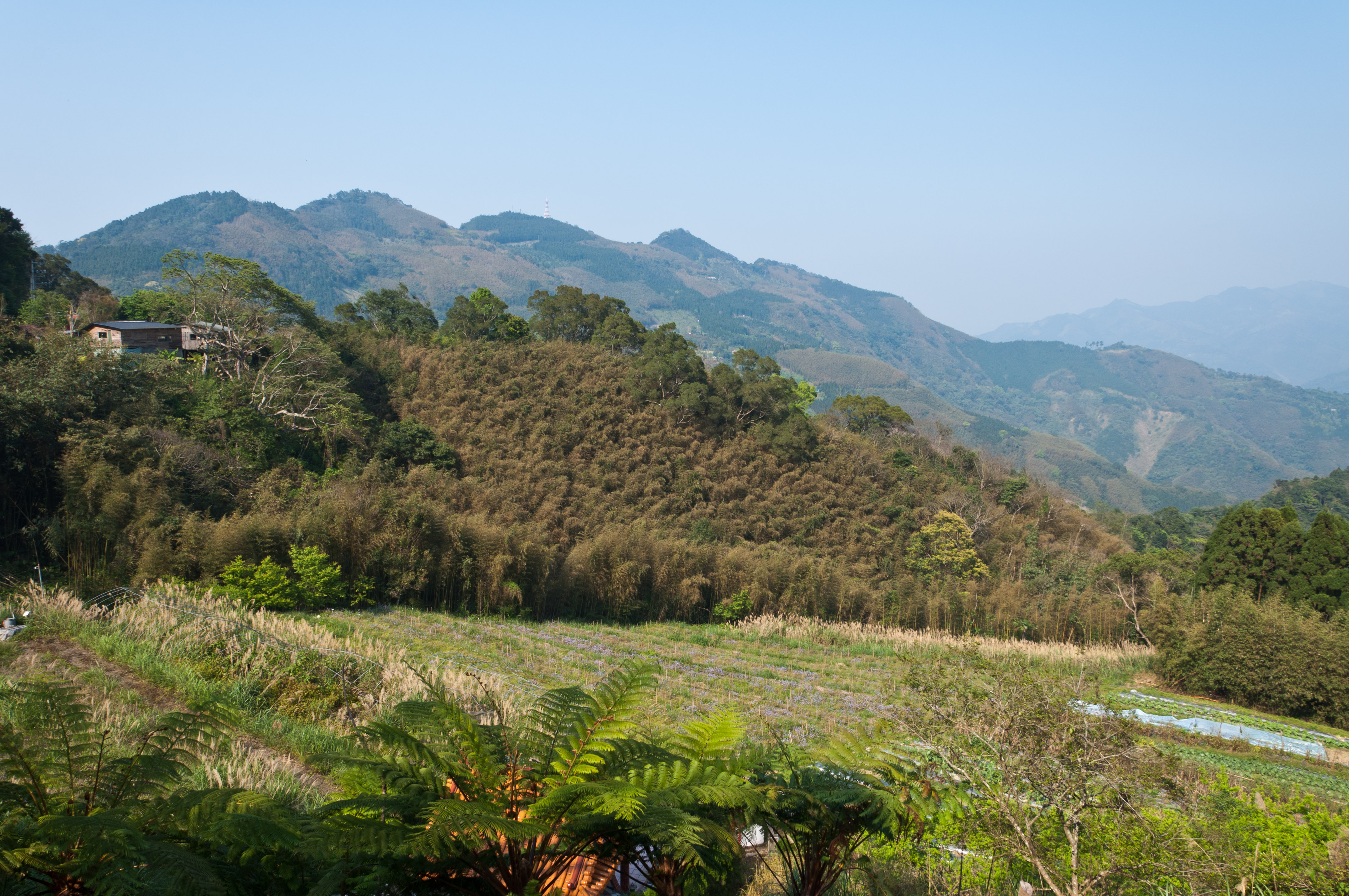 ROC Hsinchu county Mt. Wu-Zhi.